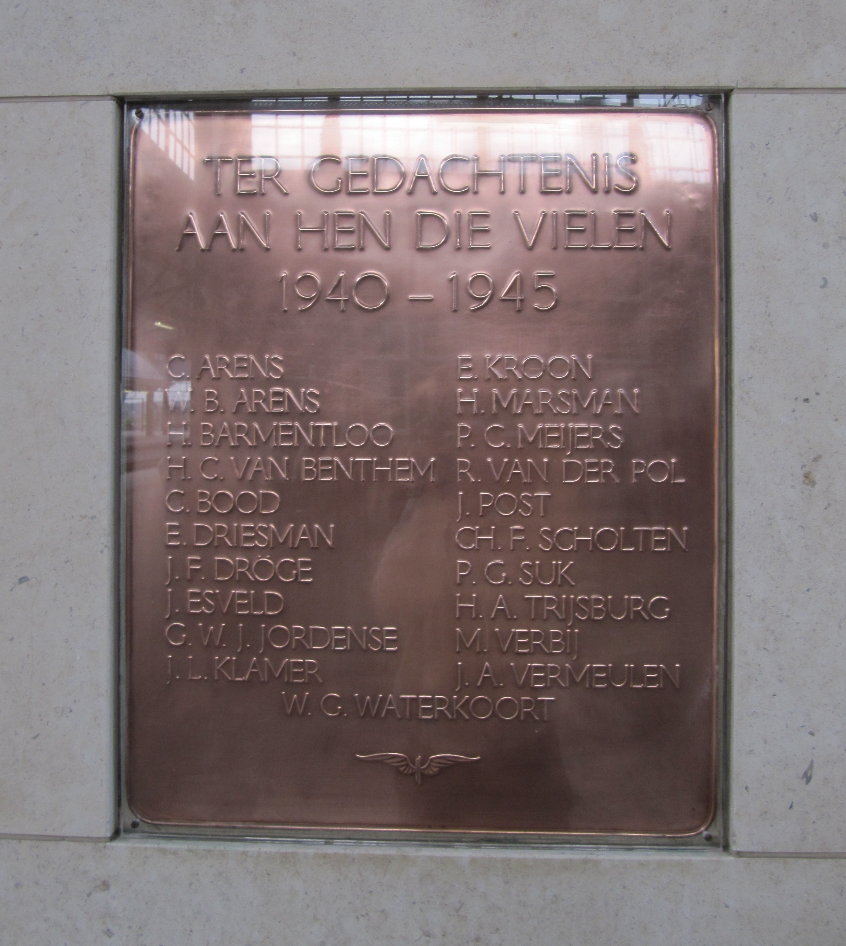 Plaque made by Ir. Hermanus Gerardus Jacob Schelling and Hendrik Jan Winkelman to commemorate the employees of the Dutch Railways who fell during the Second World War, at Amersfoort Central Station